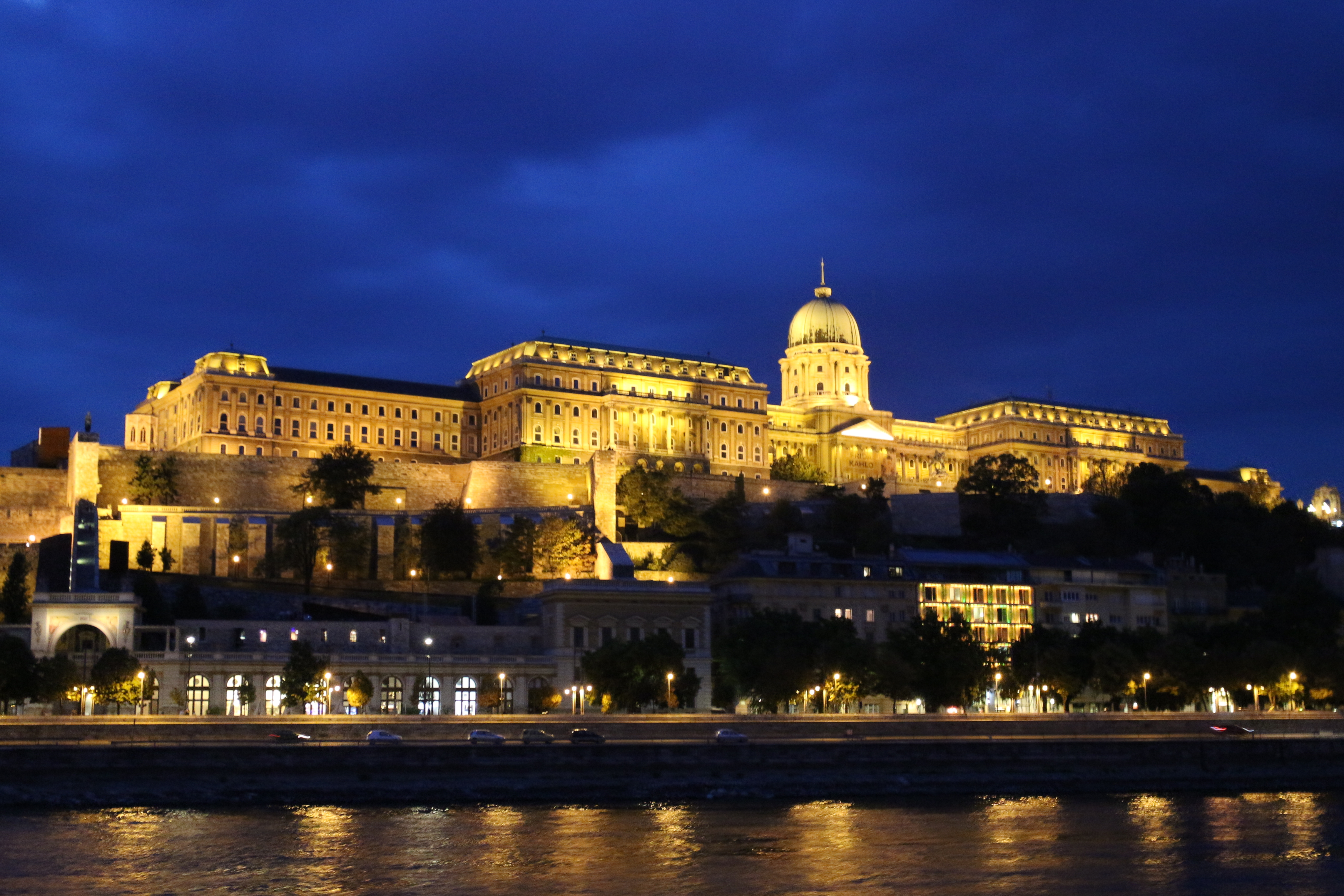 Buda Castle at night